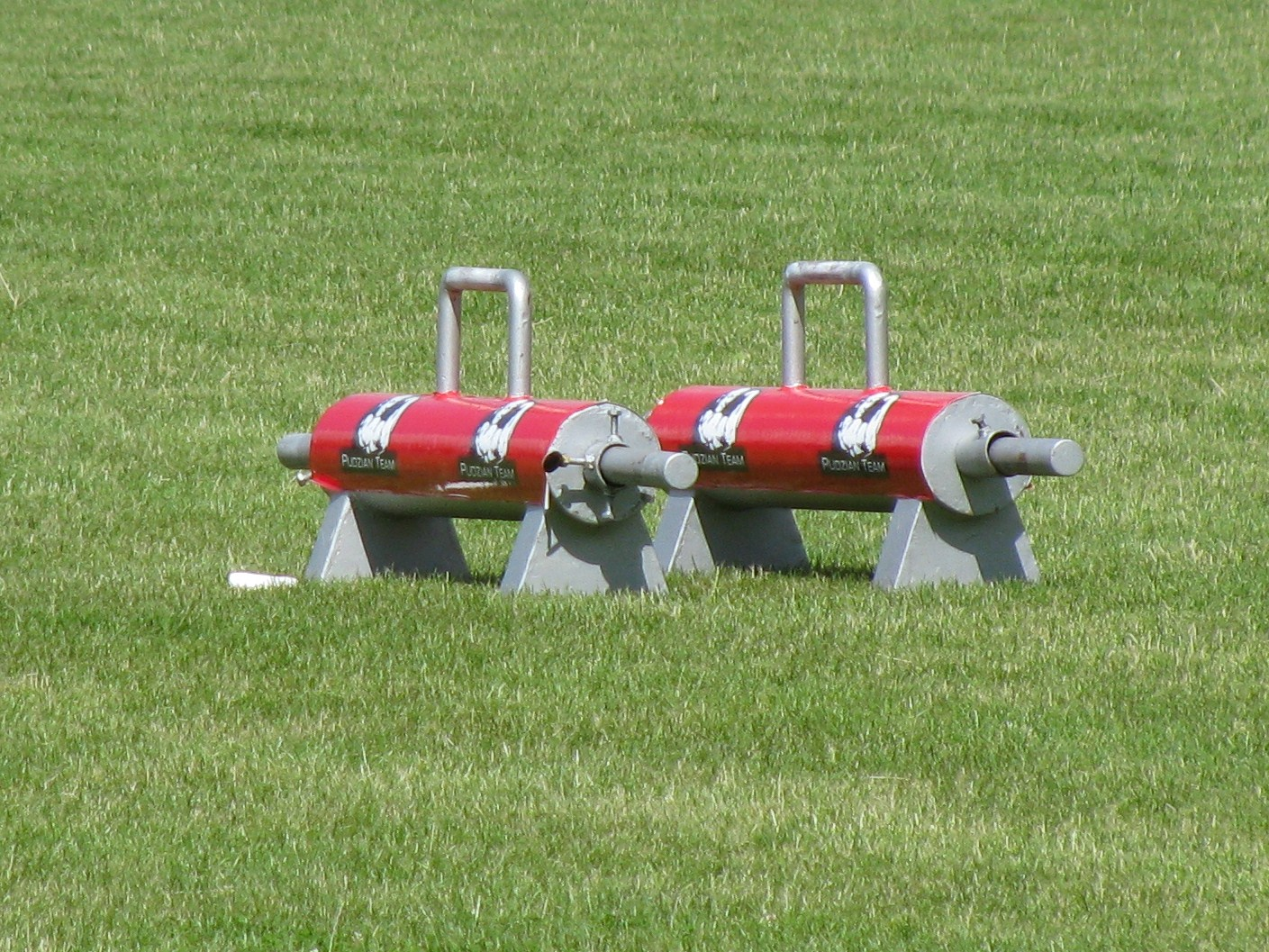 Strongmen event equipment: Farmer's Walk (2 x 150 kilograms), long suitcases.